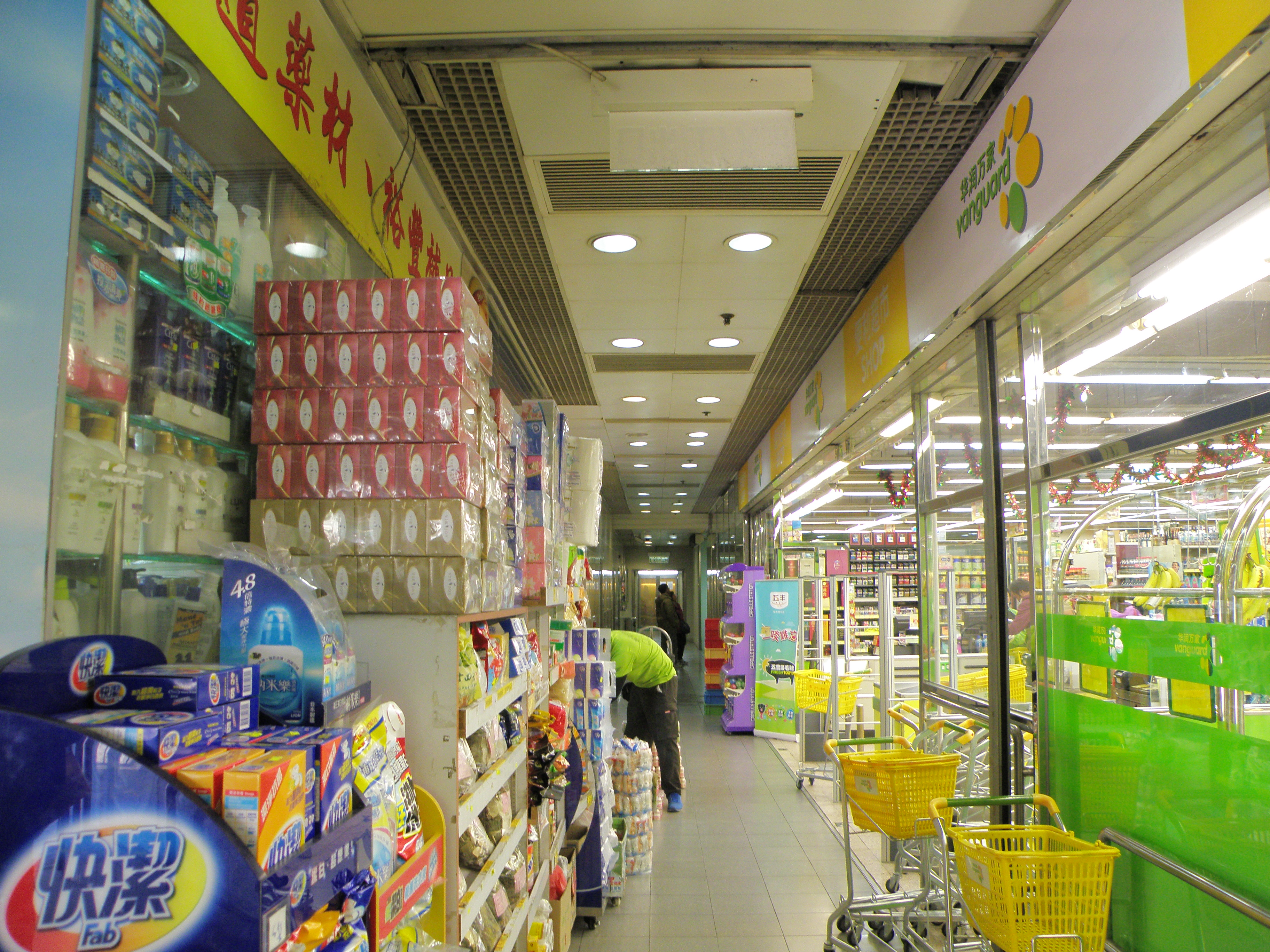 Grand View Garden in Hammer Hill, Hong Kong.